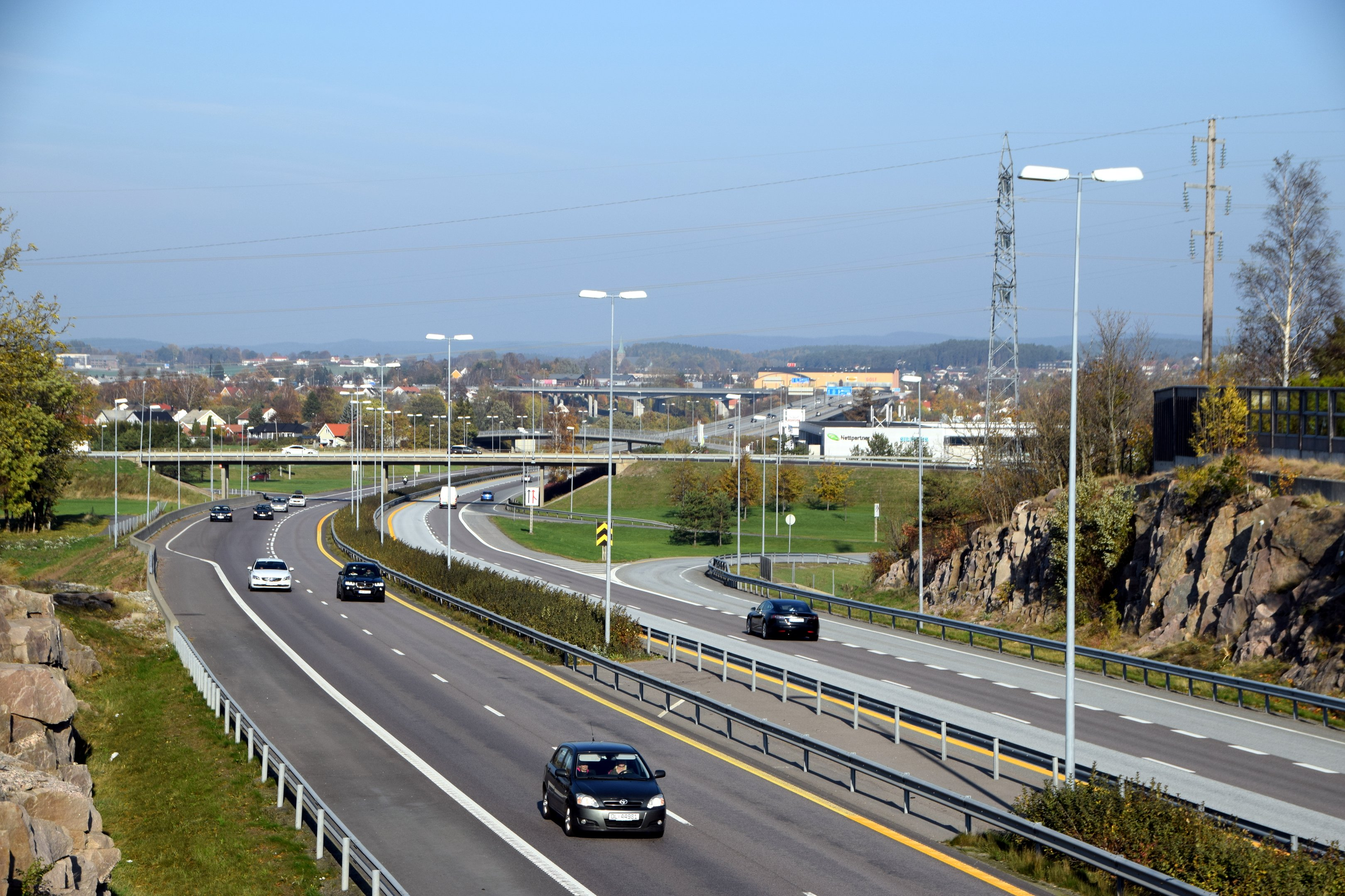 Årumkrysset (junction 5) on European route E6, Årum, Fredrikstad, Norway